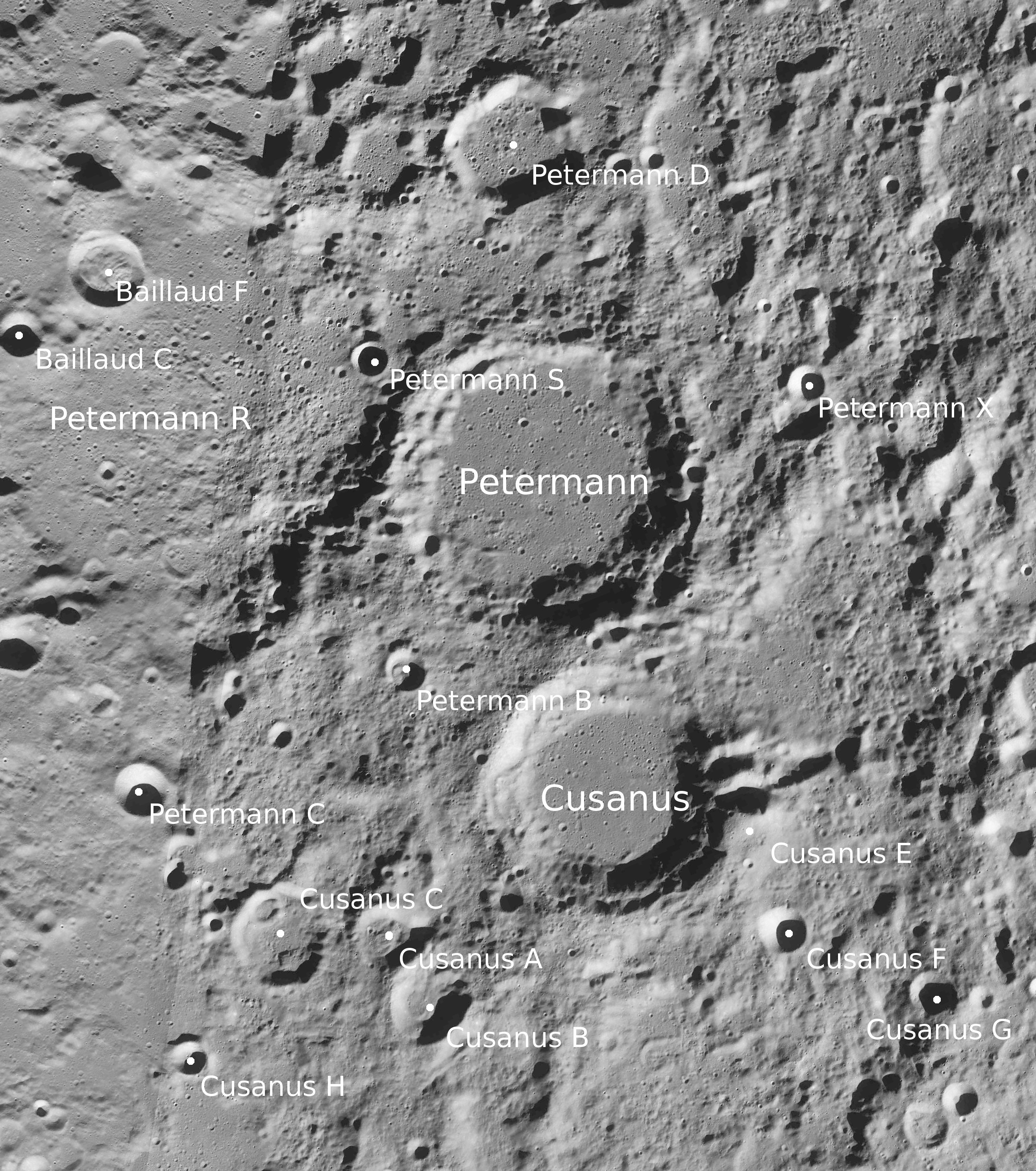 Moon craters Petermann and Cusanus with satellite features (north at top; detail of LRO - WAC north pole mosaic)